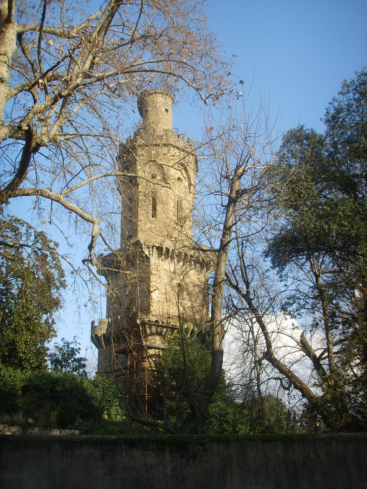 in Florence